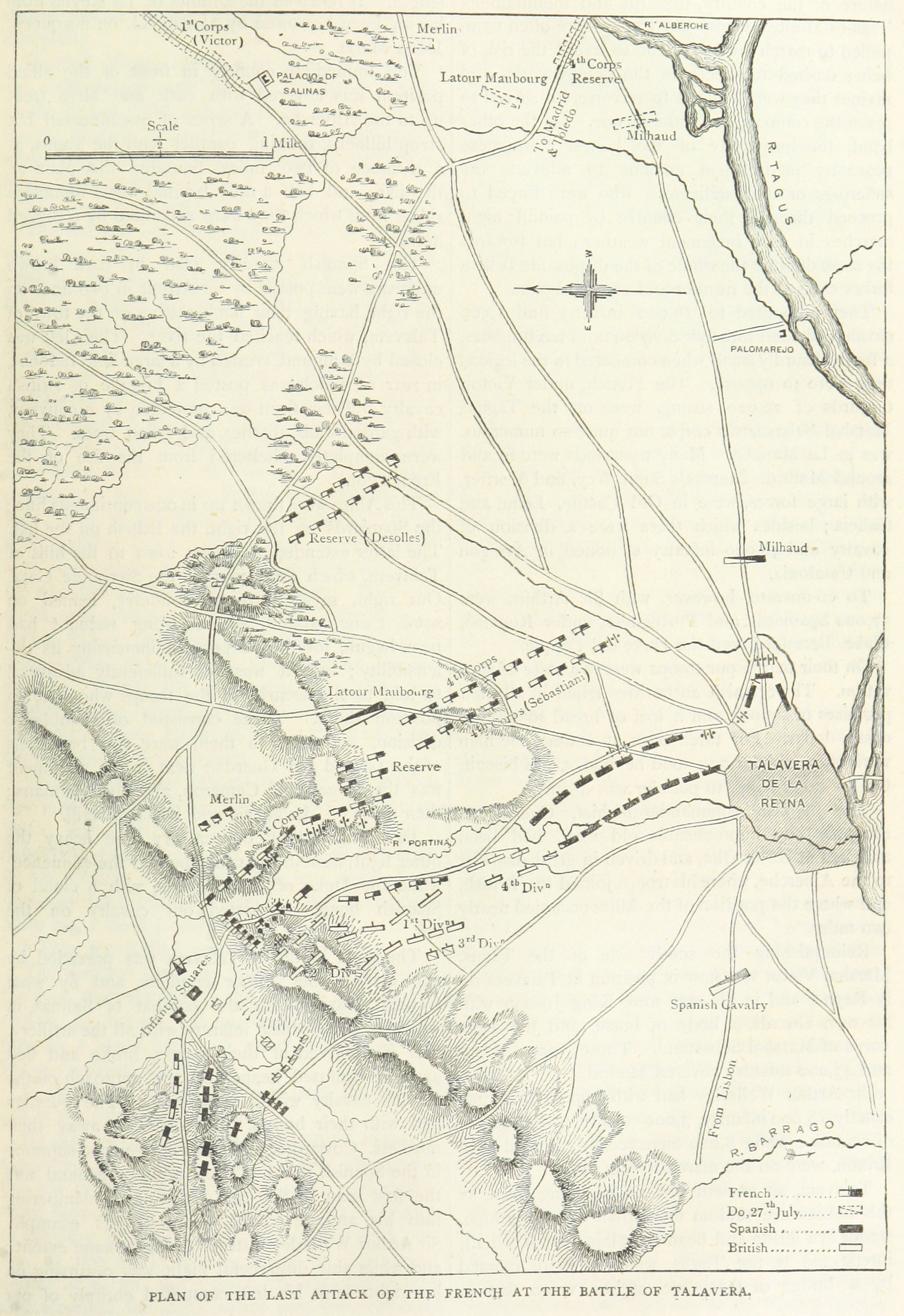 A map of the final French attack of the Battle of Talavera.